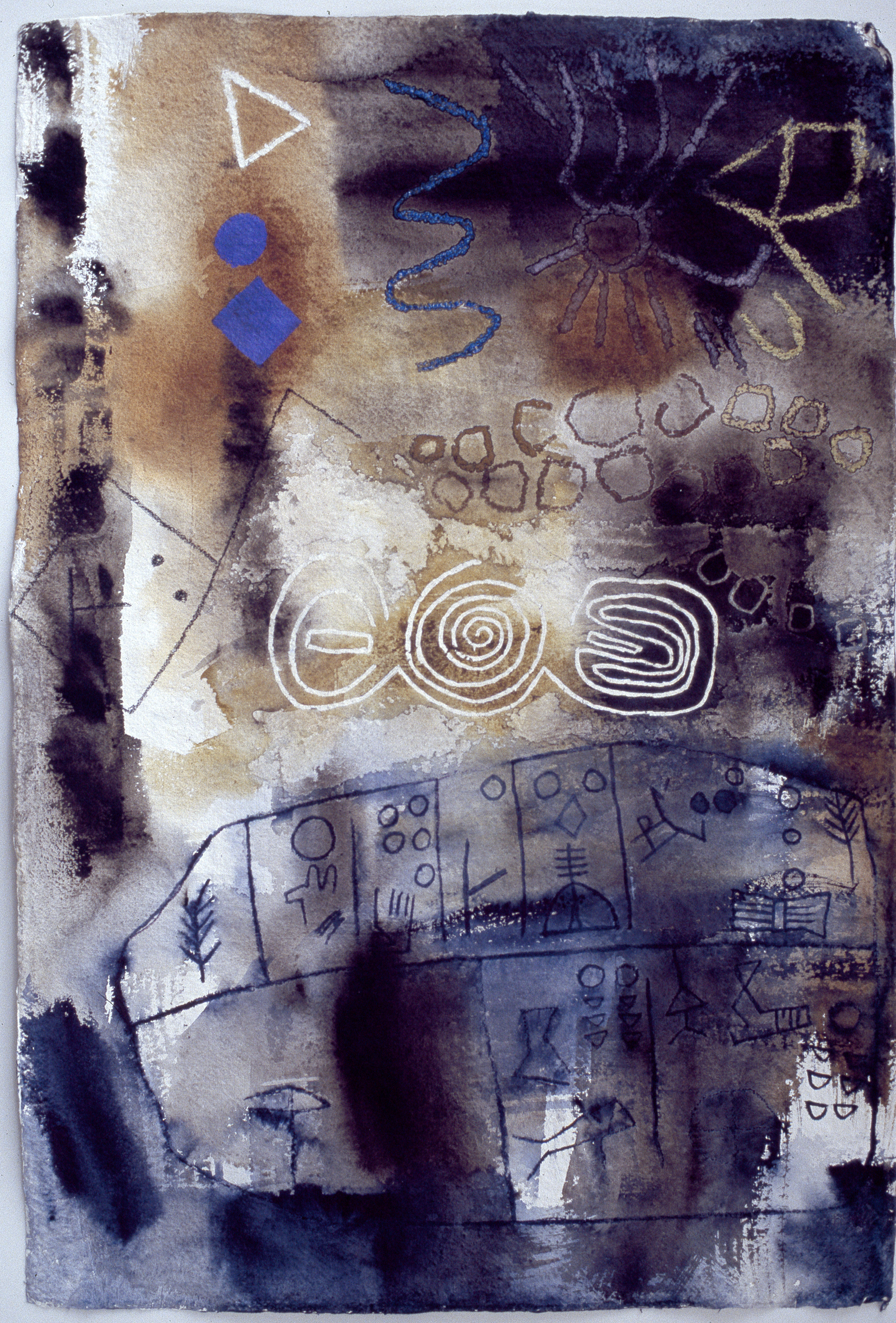 Lost Language by Mary Lloyd Jones